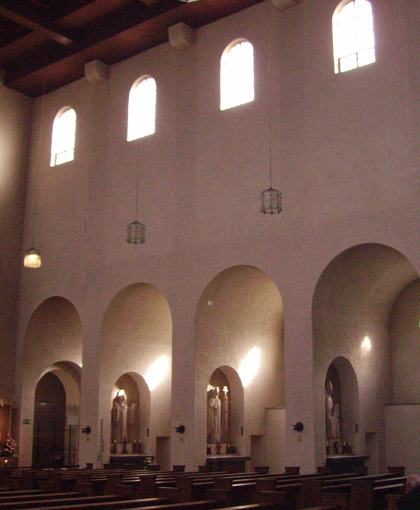 abbey church of Münsterschwarzach, Germany